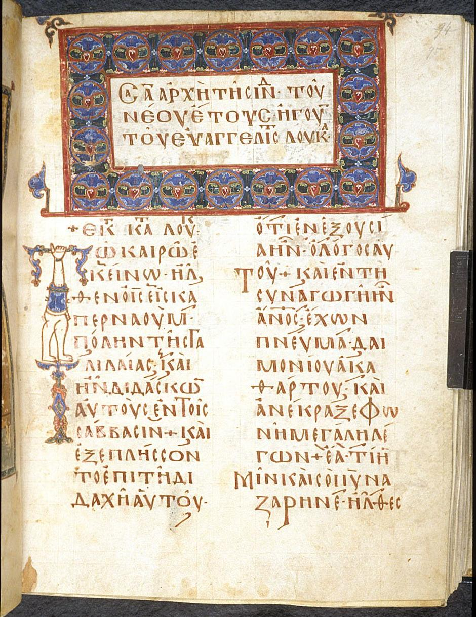 folio 95 recto